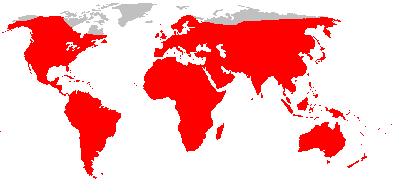 Geographic distribution of the brown rat